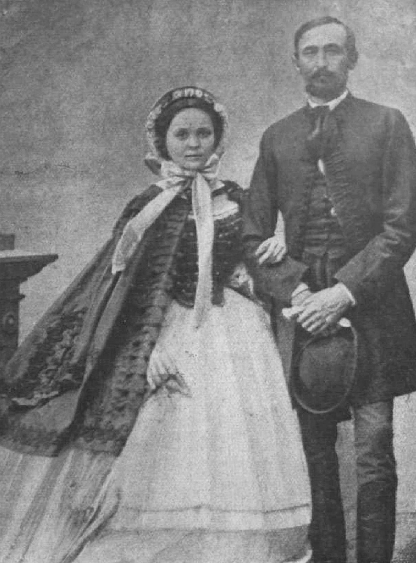 Kálmán Tisza and his wife Ilona Degenfeld-Schonburg